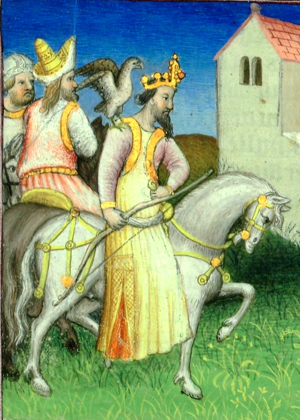 King David VII of Georgia ("David Melic) on a hunt. The Travels of Marco Polo.